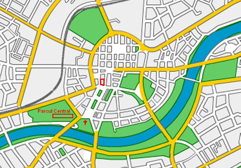 Parks in Timisoara, map